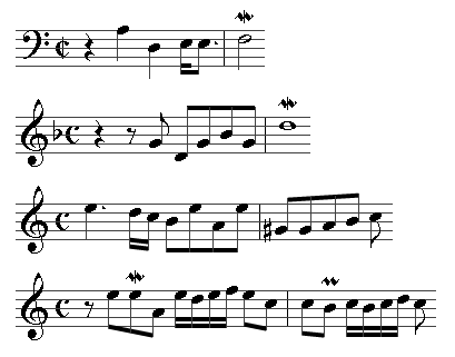 A sample of fugal themes from Premier livre d'orgue of André Raison (c.1650-1719). The themes are taken from the following pieces (from top to bottom): Messe du Première ton - Gloria - Et in terra pax (Plein jeu ou Fonds) Messe du Deuxième ton - Gloria - Benedictimus te (Jeu doux pour un Cornet) Messe du Troisième ton - Kyrie 2 (Fugue grave sur la trompette) Messs du Troisième ton - Gloria - Qui tollis (Jeu doux pour une basse et dessus de Tromp.), subject from the imitative opening Made using Sibelius 4 by Jashiin. The music quoted is in the public domain, and the image is hereby released into the public domain by Jashiin.